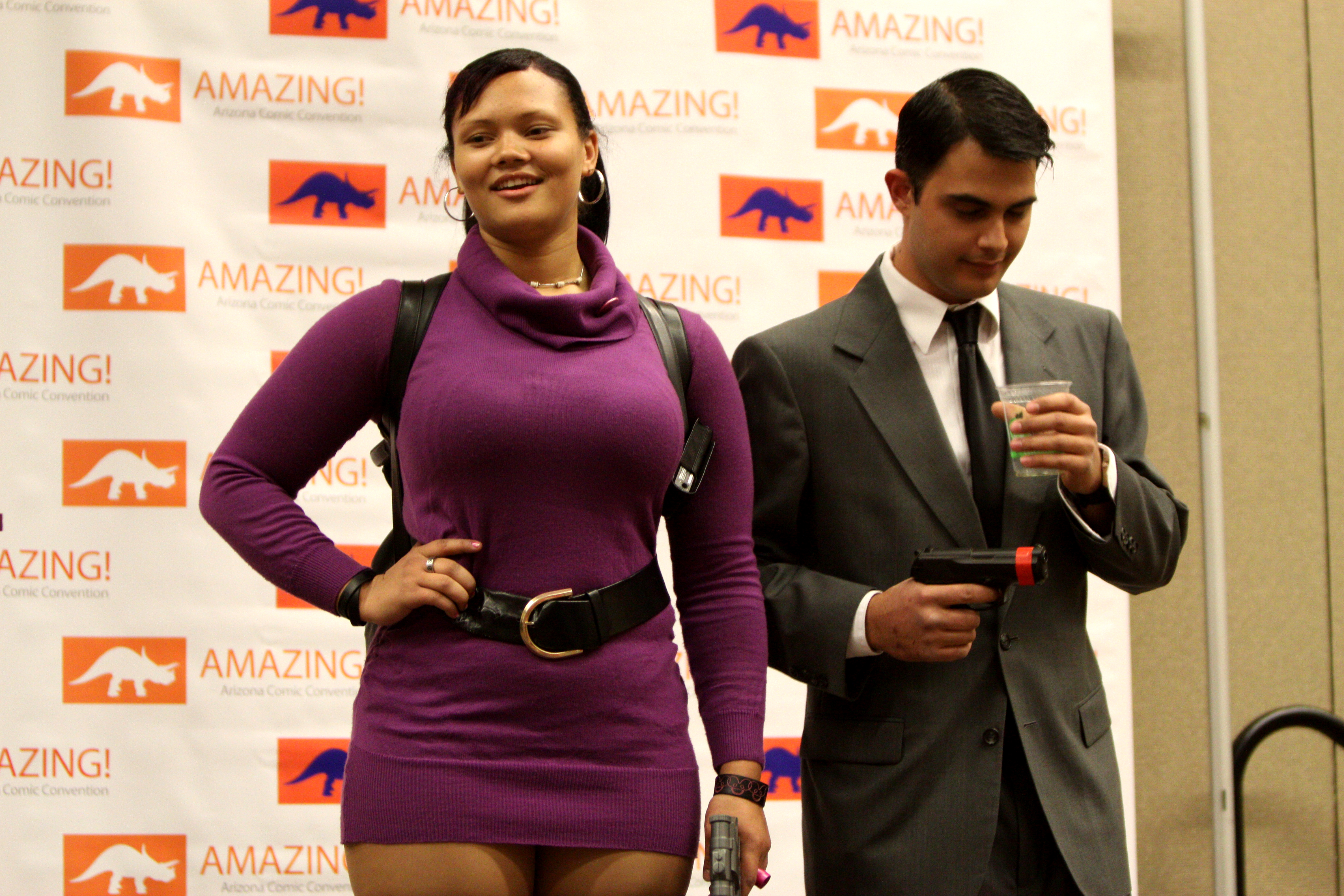 Lana Kane and Sterling Archer cosplayers at the Amazing Arizona Comic Con at the Phoenix Convention Center in Phoenix, Arizona.